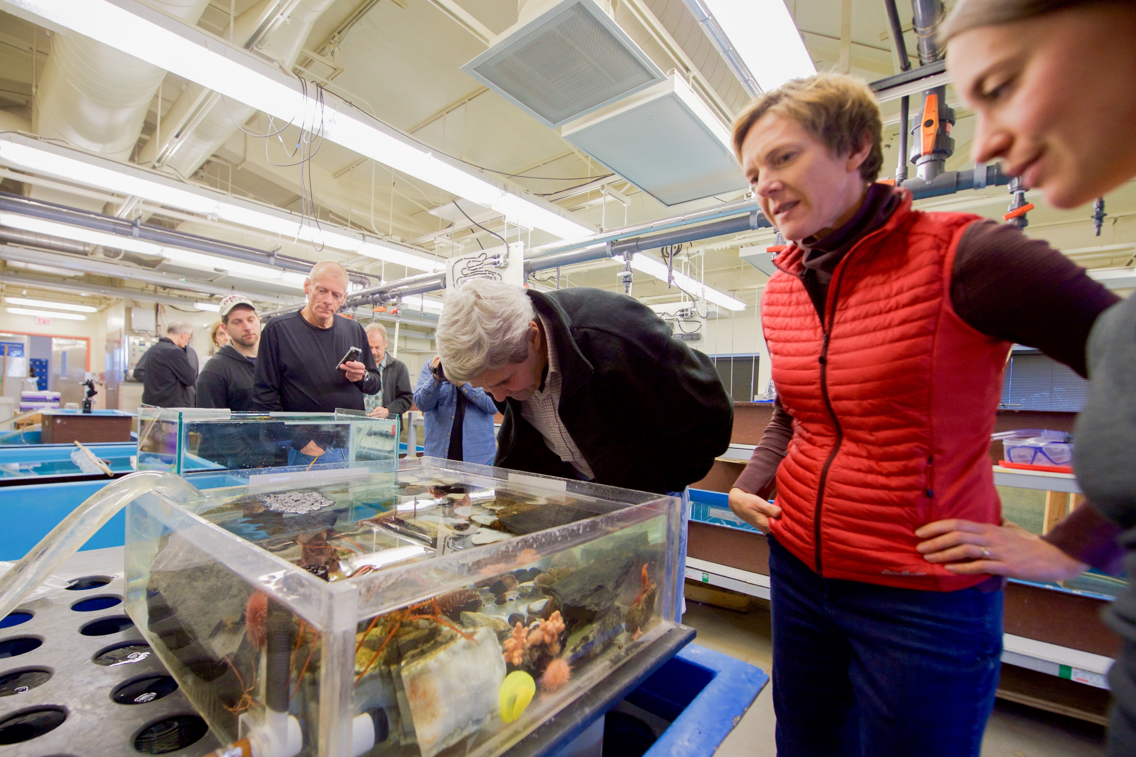 U.S. Secretary of State John Kerry looks in a tank of marine wildlife as he speaks with a biologist at Crary Labs at McMurdo Station in Antarctica on November 12, 2016, while the Secretary visited U.S. research facilities around Ross Island and the Ross Sea in an effort to learn about the effects of climate change on the Continent. [State Department Photo/ Public Domain]